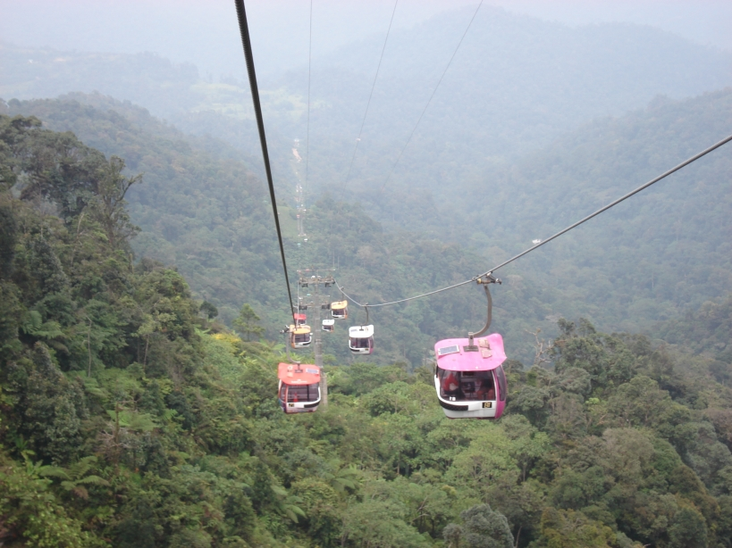 Genting Skyway - Cabin View